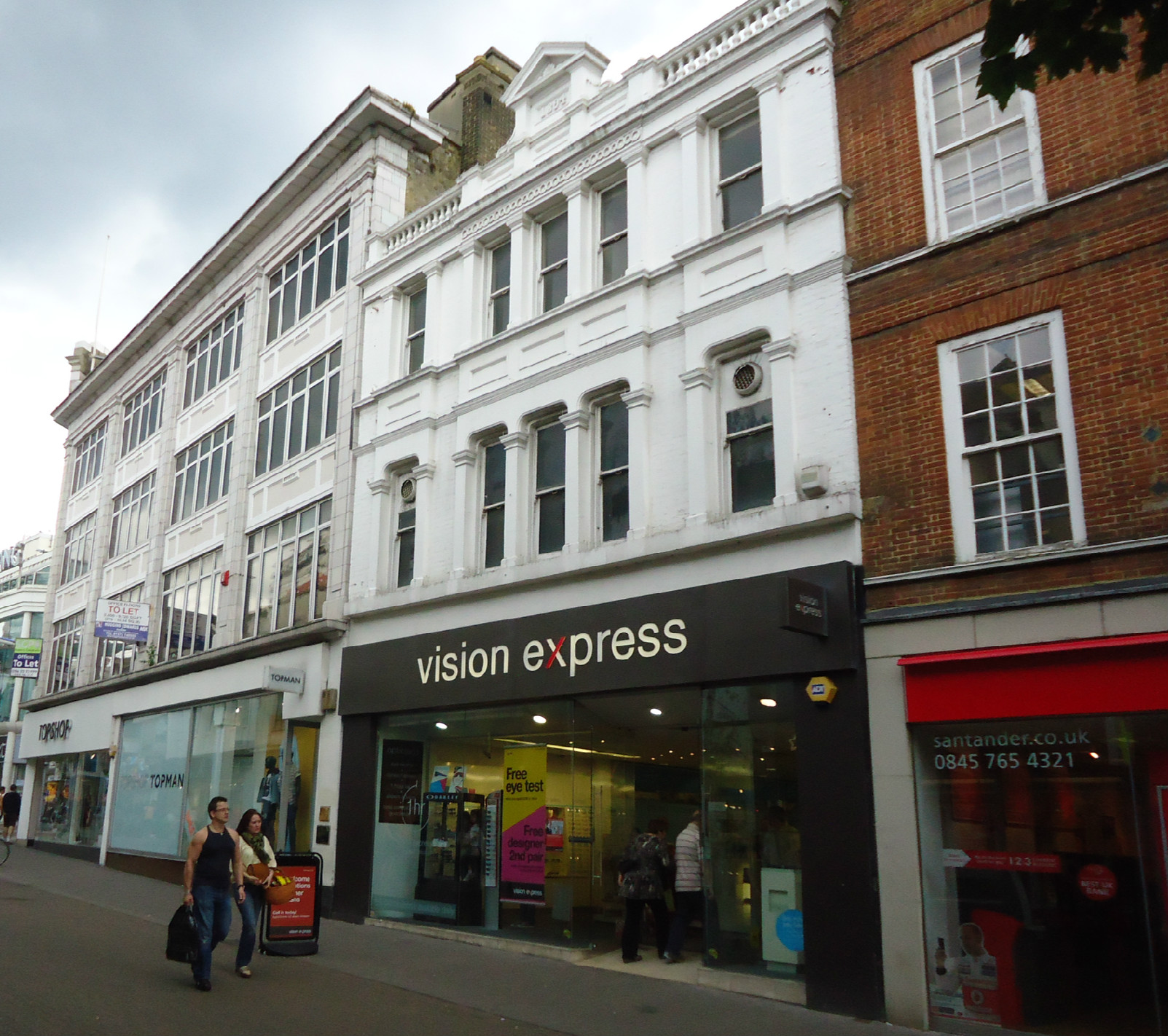 Commercial buildings in Sutton, Surrey, Greater London.